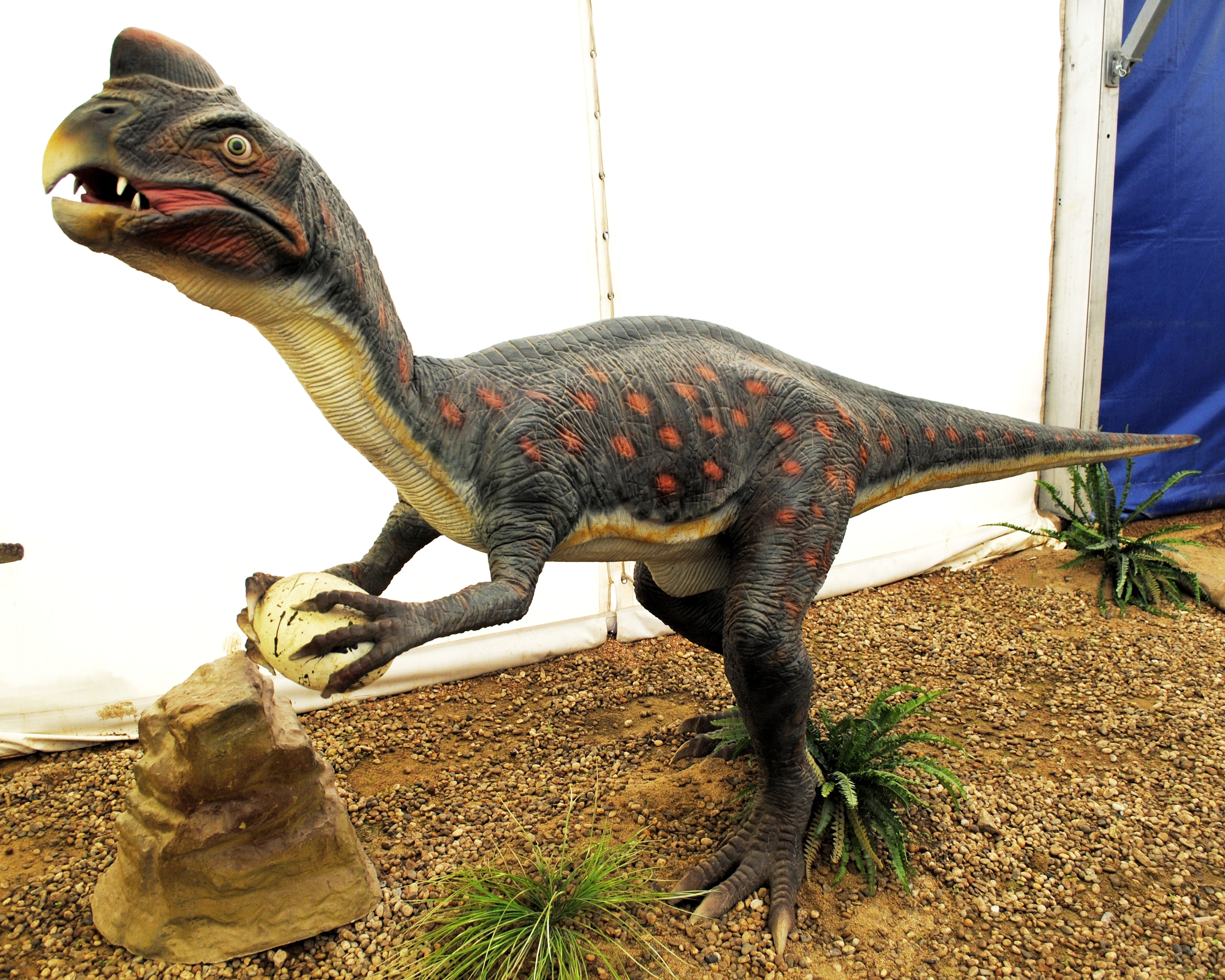 Dinosaurios Park, Oviraptor